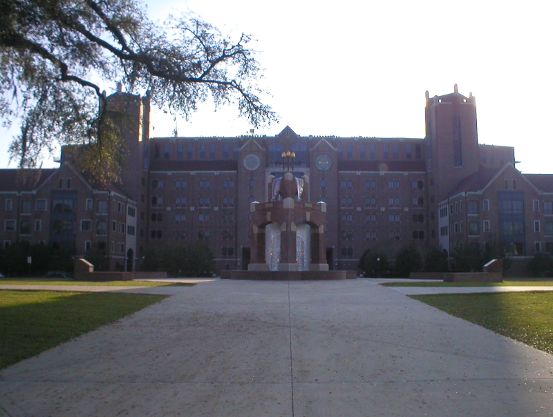 Doak Campbell Stadium and Heritage Tower fountain at Florida State University. Photo by User:TrbleClef.